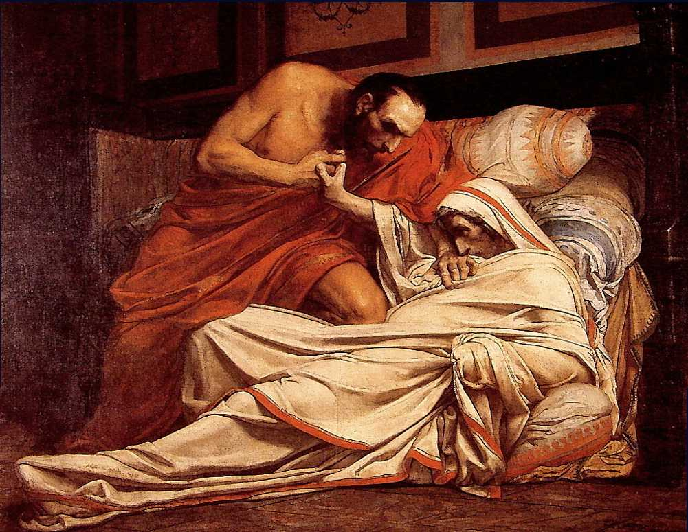 The Death of Tiberius